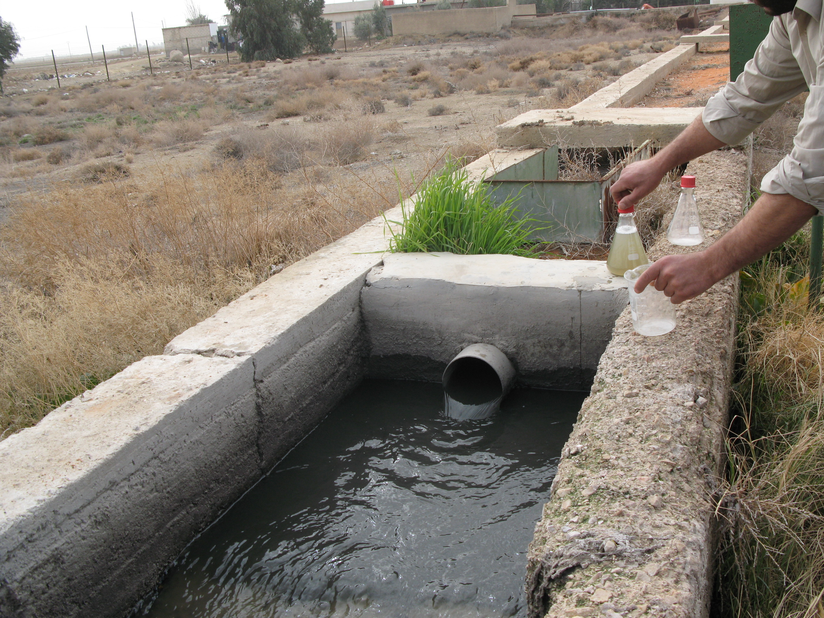 Here the wastewater is only light grey. In summer it is more black as people use less water then (water shortages)